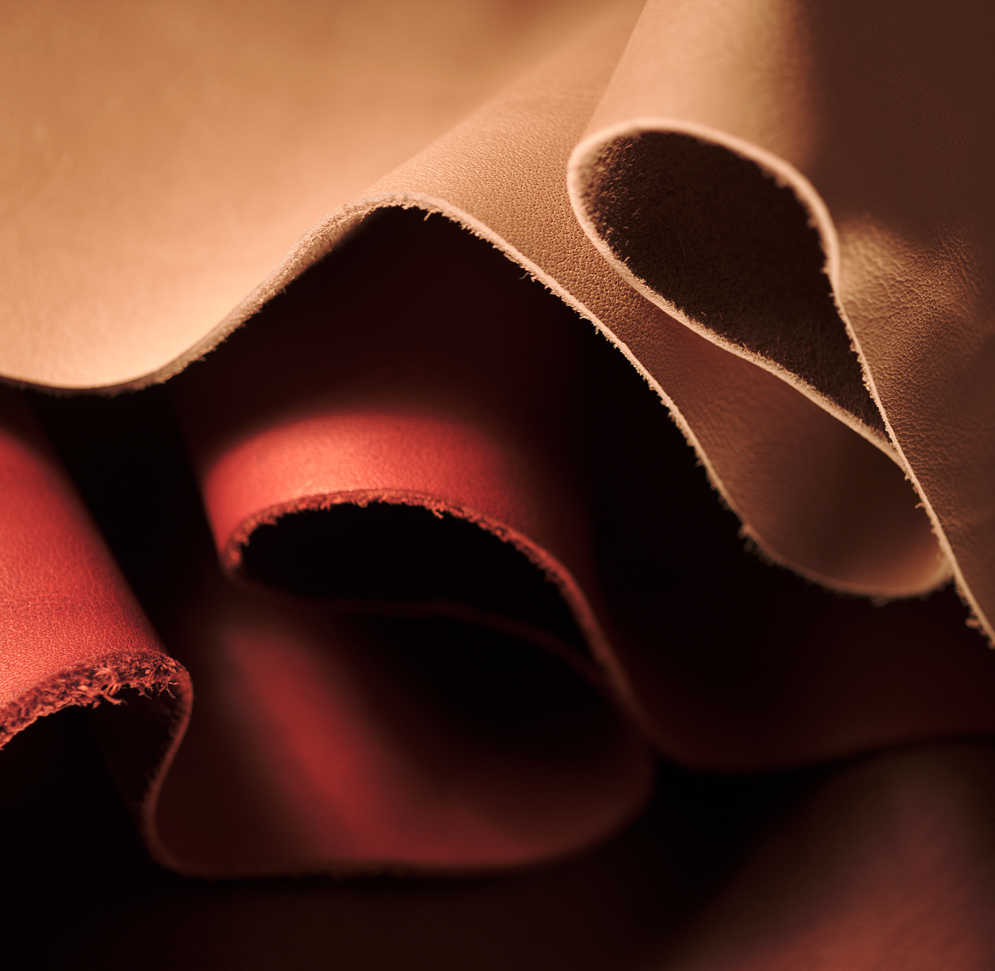 Lining leather